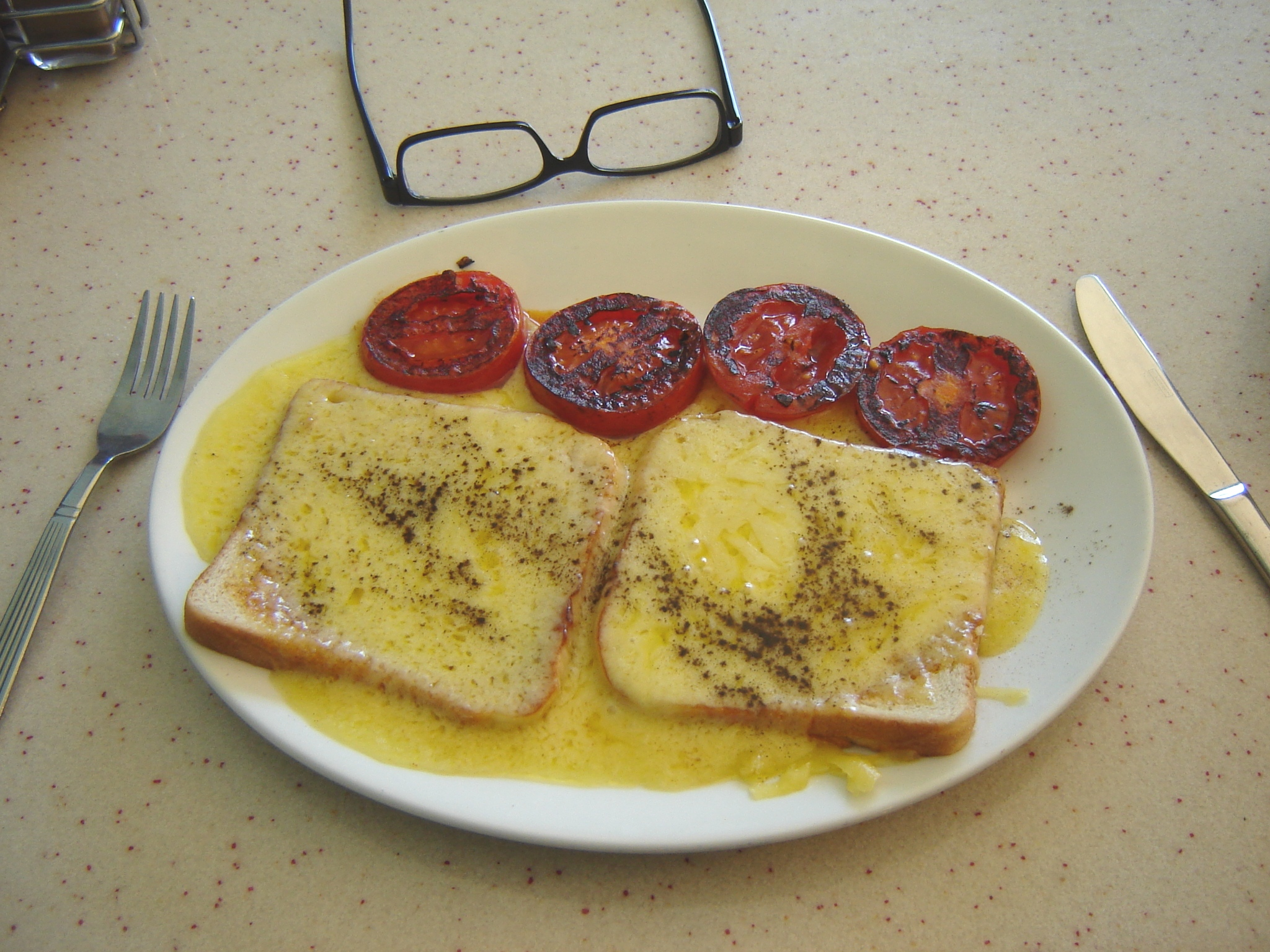 Cheese on toast as served in a cafe in Harlow, Essex